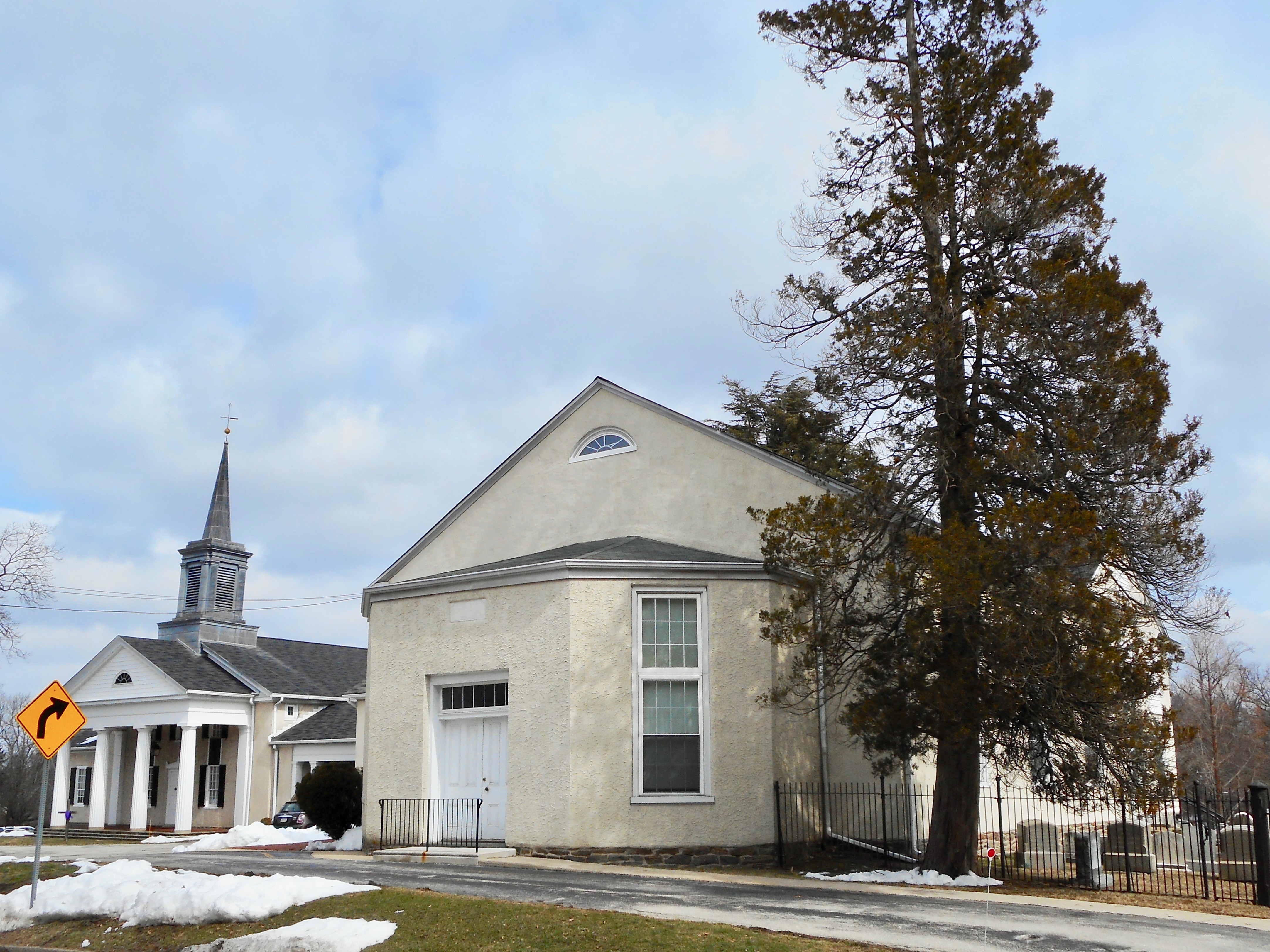 Marple Presbyterian Church, first church in Marple Township, Delaware County, Pennsylvania. There may have been Quaker meetinghouses in the township earlier. The nearer building was built 1834-1835 in the meetinghouse style. The further away building replaced the older church in the mid 20th century. Township historical marker on the site